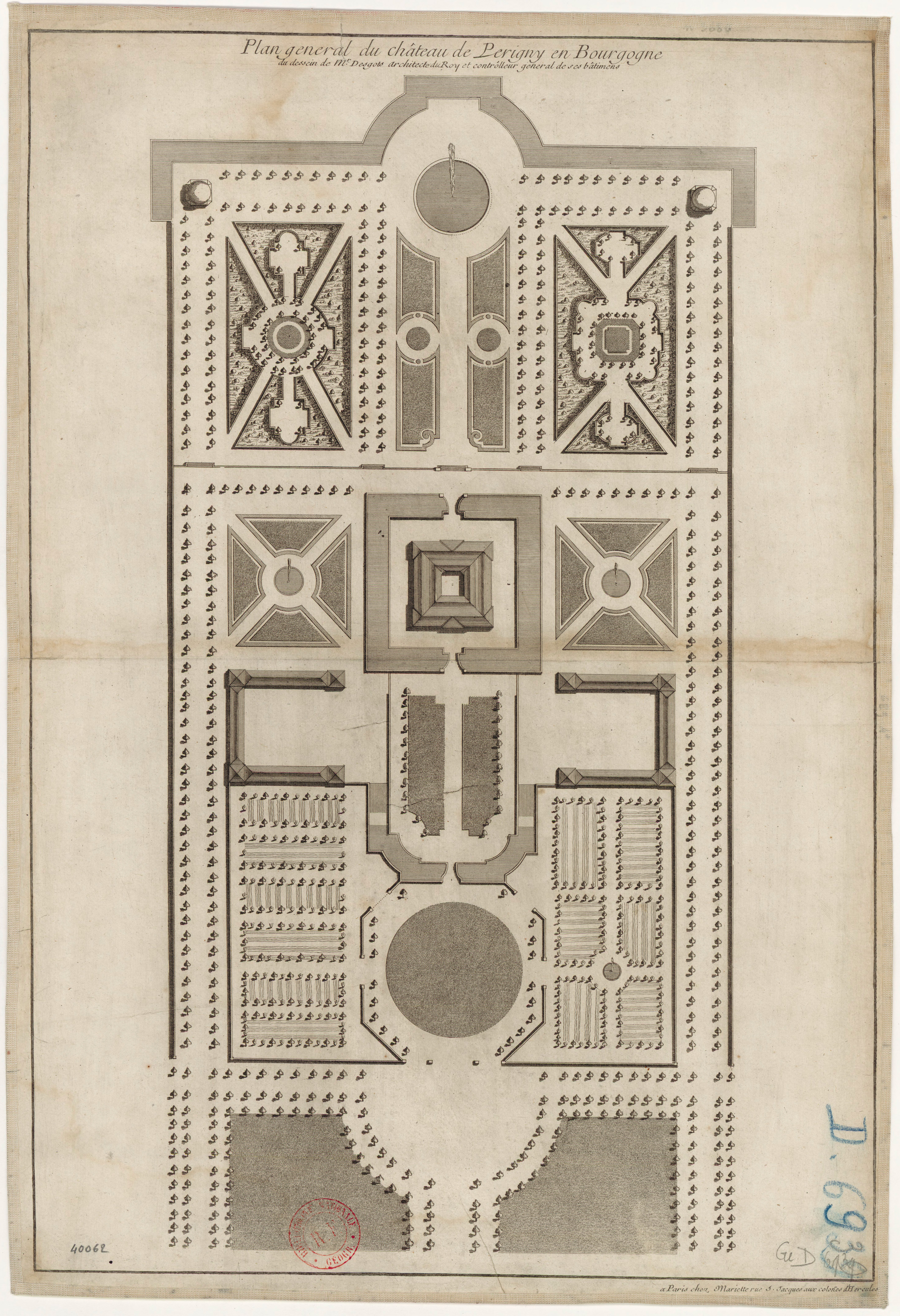 General plan of the Château de Perrigny (spelled Perigny on the plate) in Burgundy as designed by Claude Desgots ca. 1720, published in Jean Mariette's L'Architecture françoise, vol. 3 (1727), as one of 5 plates depicting the chateau.